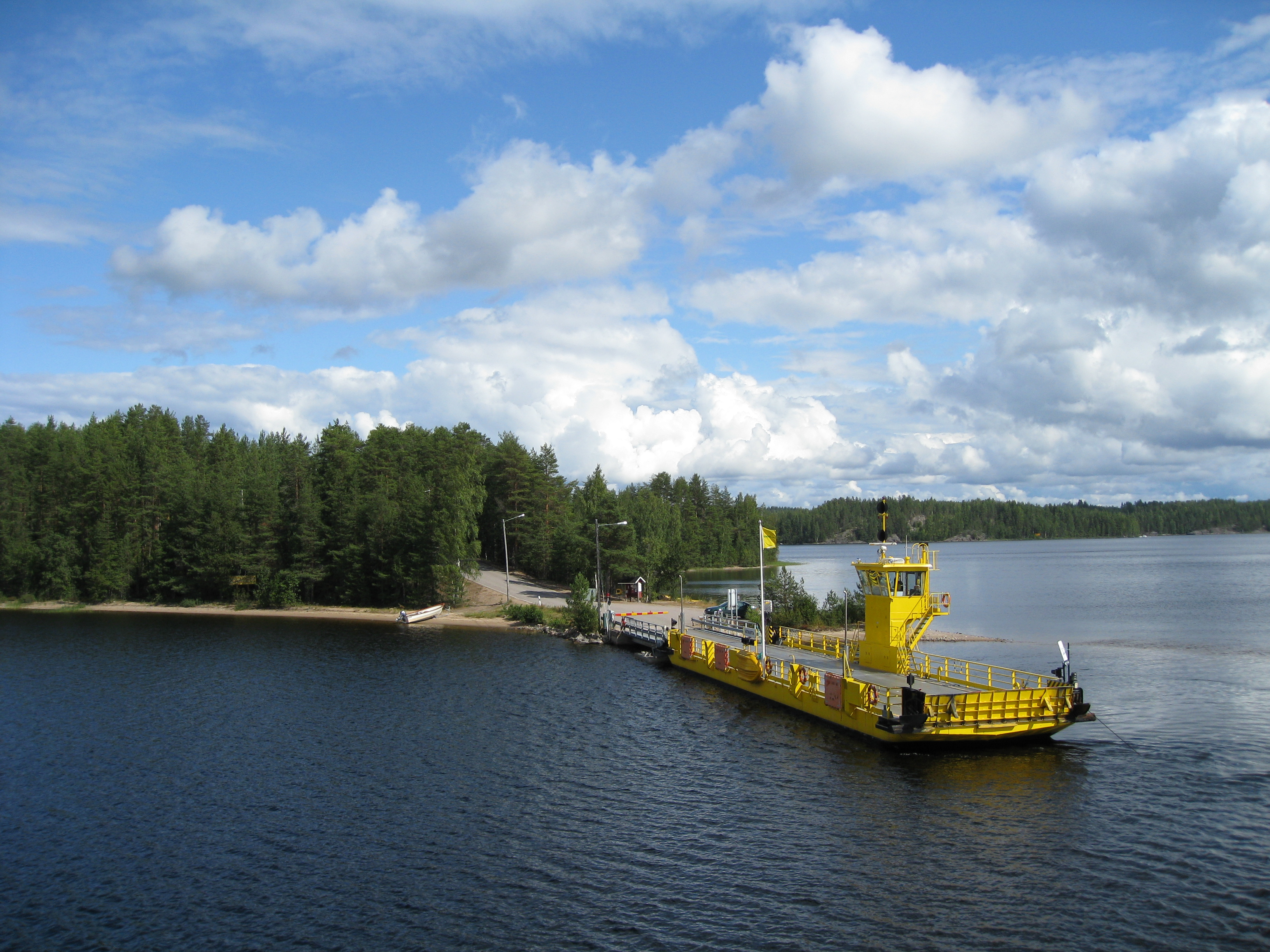 Hätinvirta ferry in Puumala, Finland